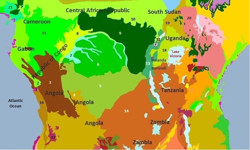 Map of ecoregions of Central Africa [1] Central African mangroves; [2] Atlantic Equatorial coastal forests; [3] Western Congolian forest-savanna mosaic; [4] Angolan Miombo woodlands; [5] Southern Congolian forest-savanna mosaic; [6] Central Congolian lowland forests; [7] Eastern Congolian swamp forests; [8] Western Congolian swamp forests; [9] Northeastern Congolian lowland forests; [10] Northern Congolian forest-savanna mosaic; [11] East Sudanian savanna; [12] Ruwenzori-Virunga montane moorlands; [13] Albertine Rift montane forests; [14] Central Zambezian Miombo woodlands. [15] Northwestern Congolian lowland forests [16] Angolan Scarp savanna and woodlands [17] Angolan montane forest-grassland mosaic [18] Victoria Basin forest-savanna mosaic [19] East Sudanian savanna (as [11]); [20] Northern Acacia-Commiphora bushlands and thickets [21] Cross-Sanaga-Bioko coastal forests